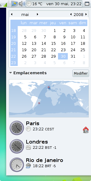 World clock under Gnome 2.22